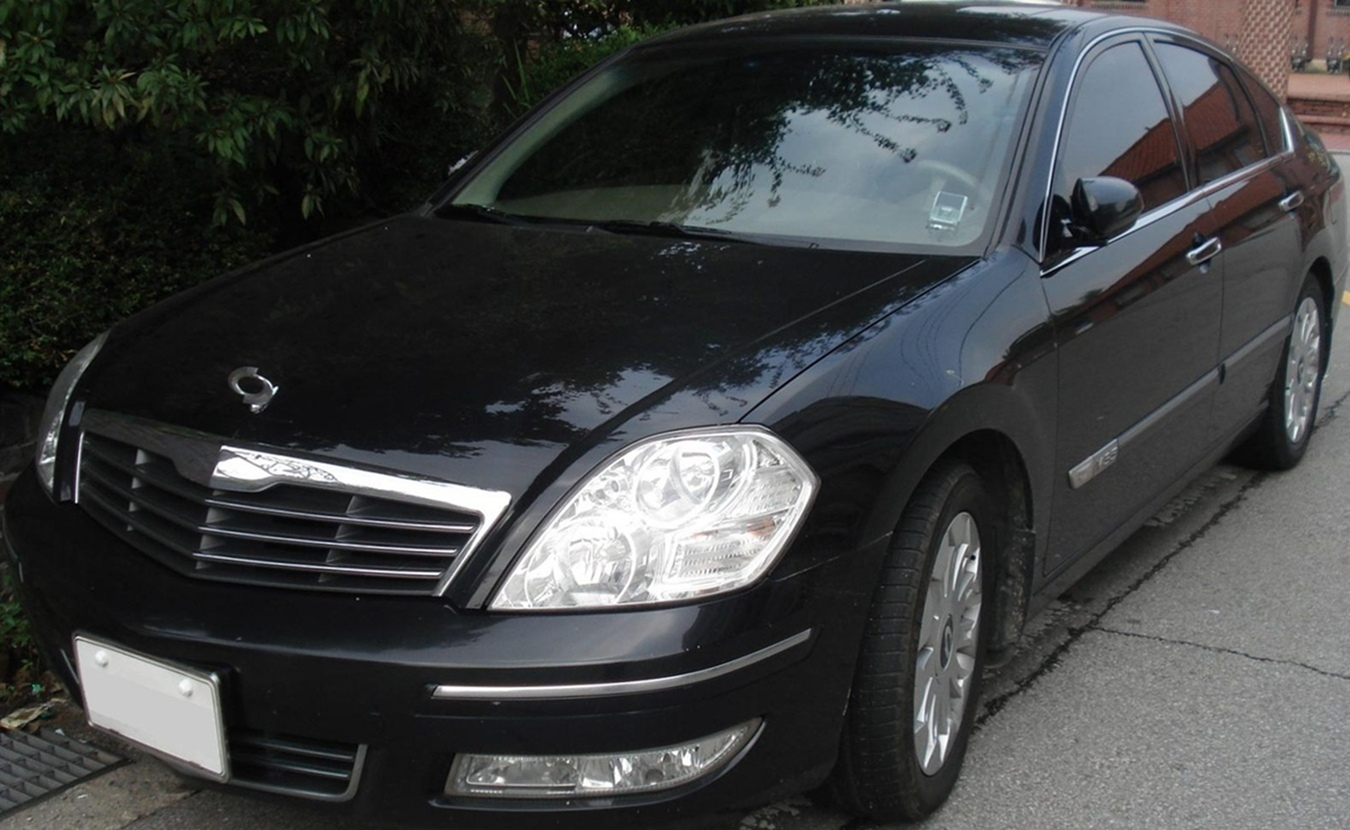 Renault Samsung SM7